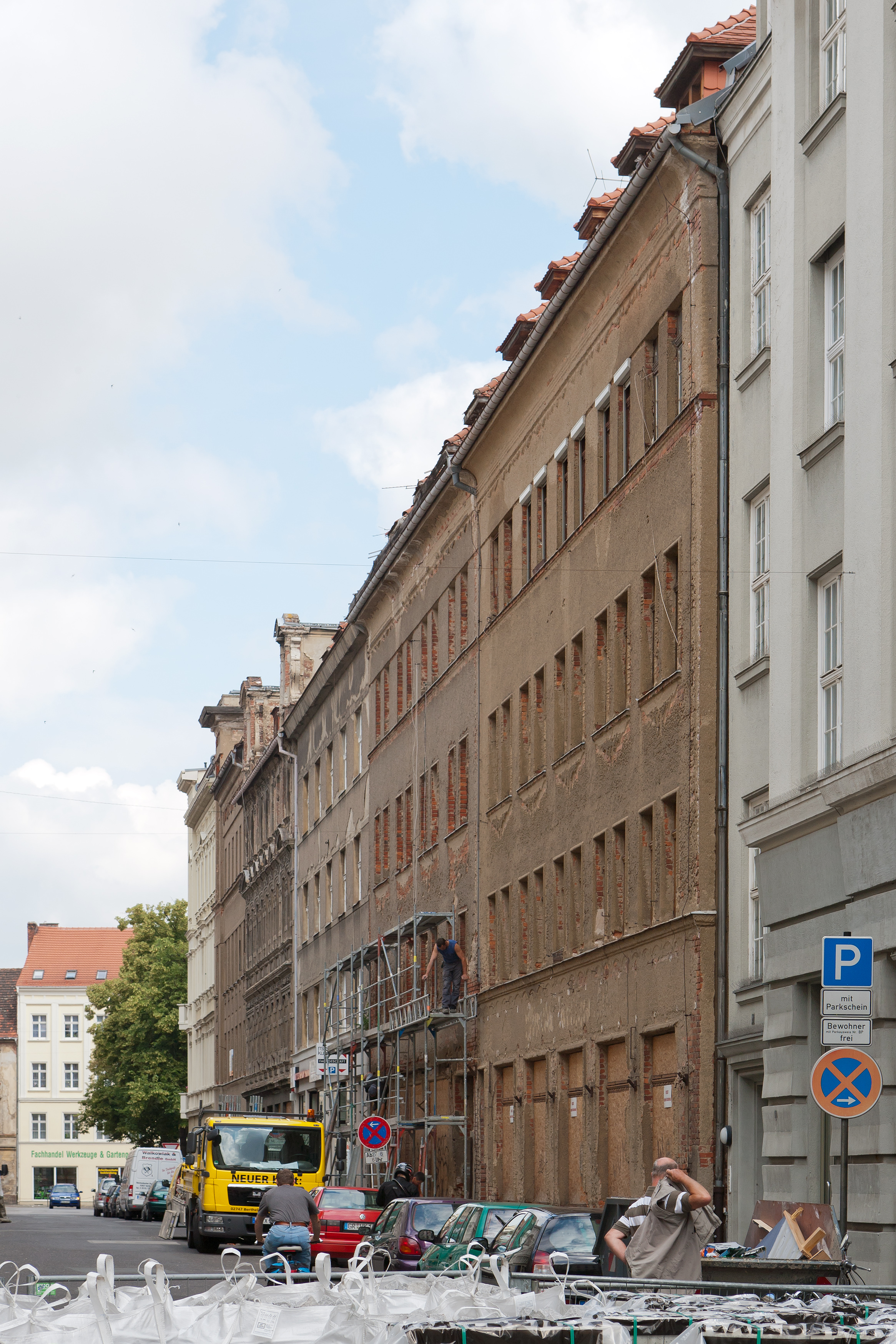 Görlitz: Doktor-Friedrichs-Straße (Doctor Friedrich Street) as seen from the southeast at the Berliner Straße (Berlin Street)